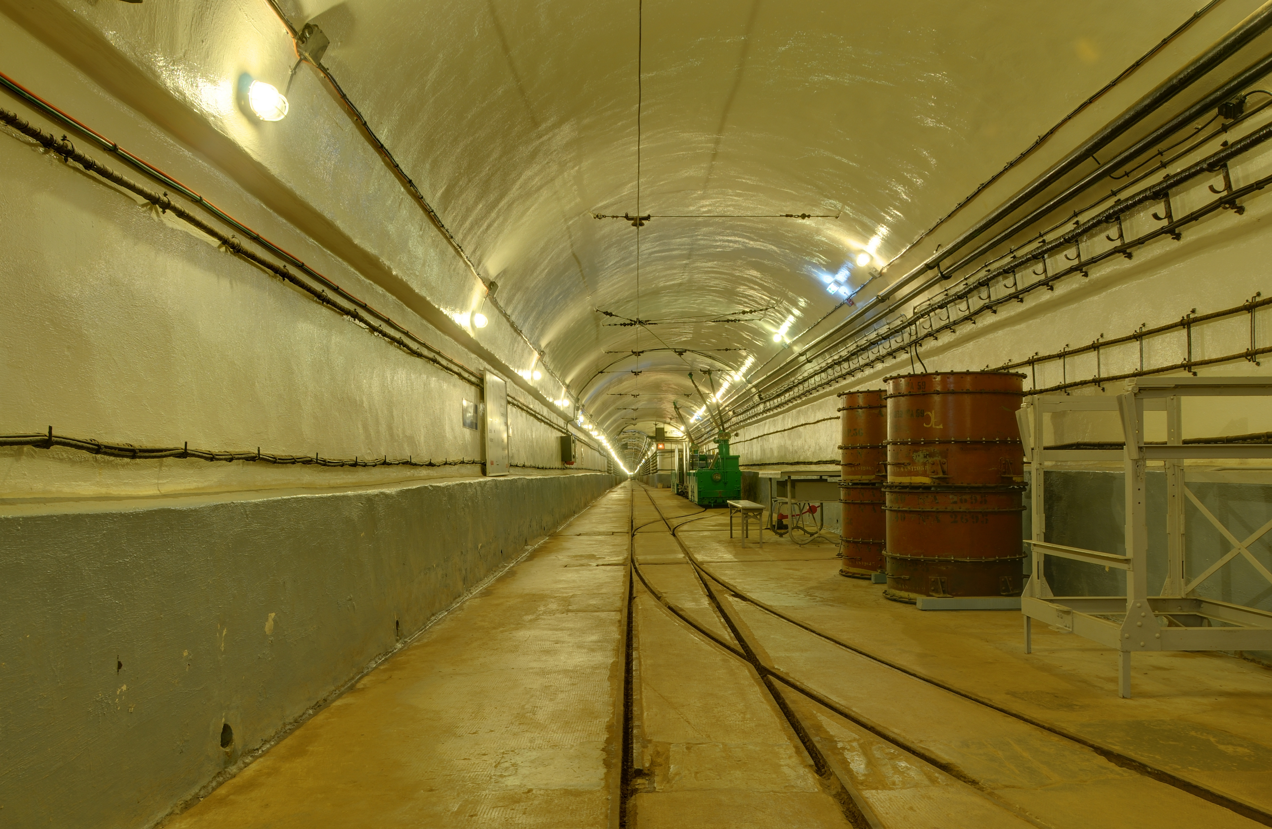 A Gallery in the Schoenenbourg fort, 30 meters underground (HDR).